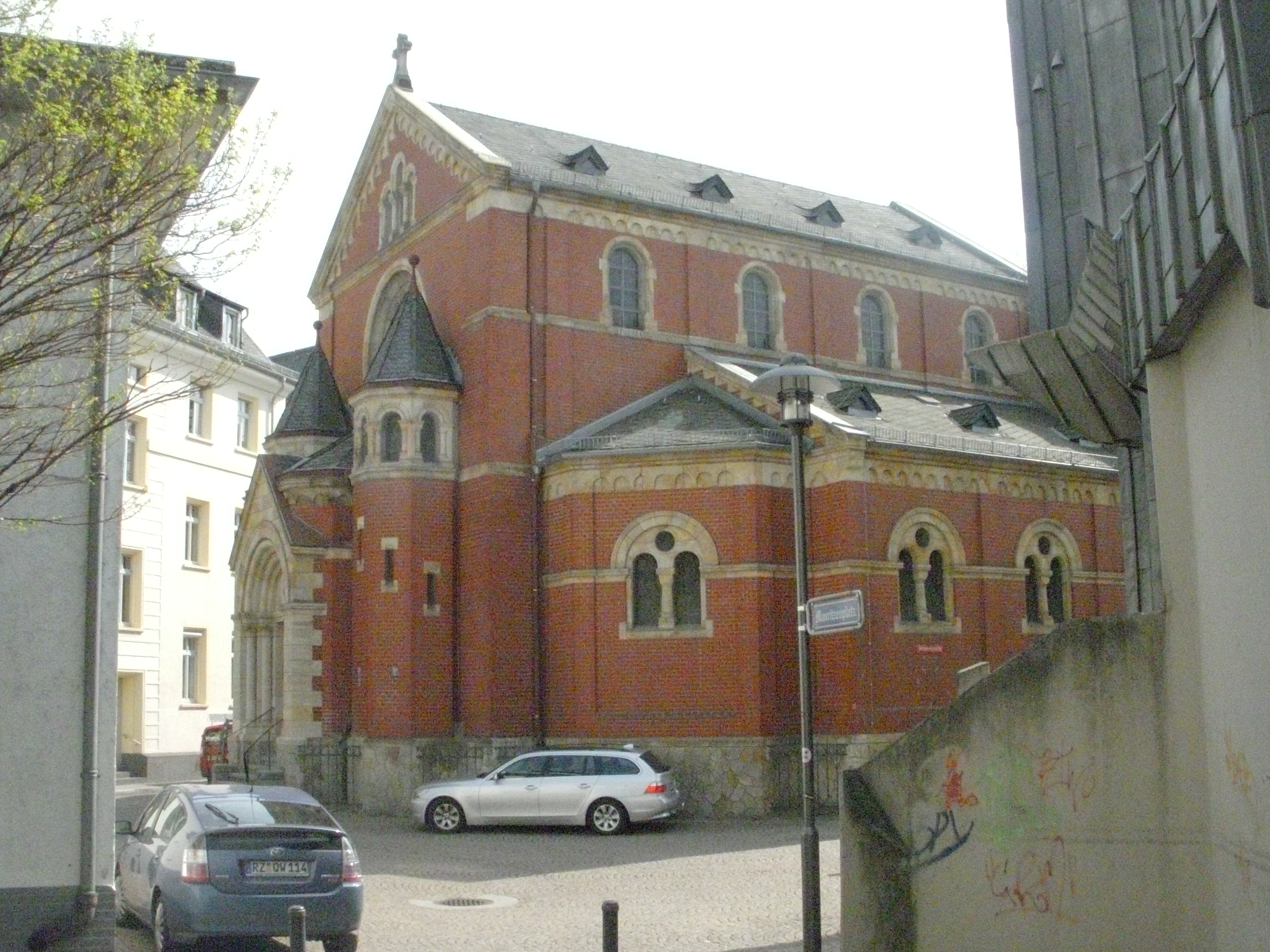 Chapel Maria Dolorosa, Mainz, Germany